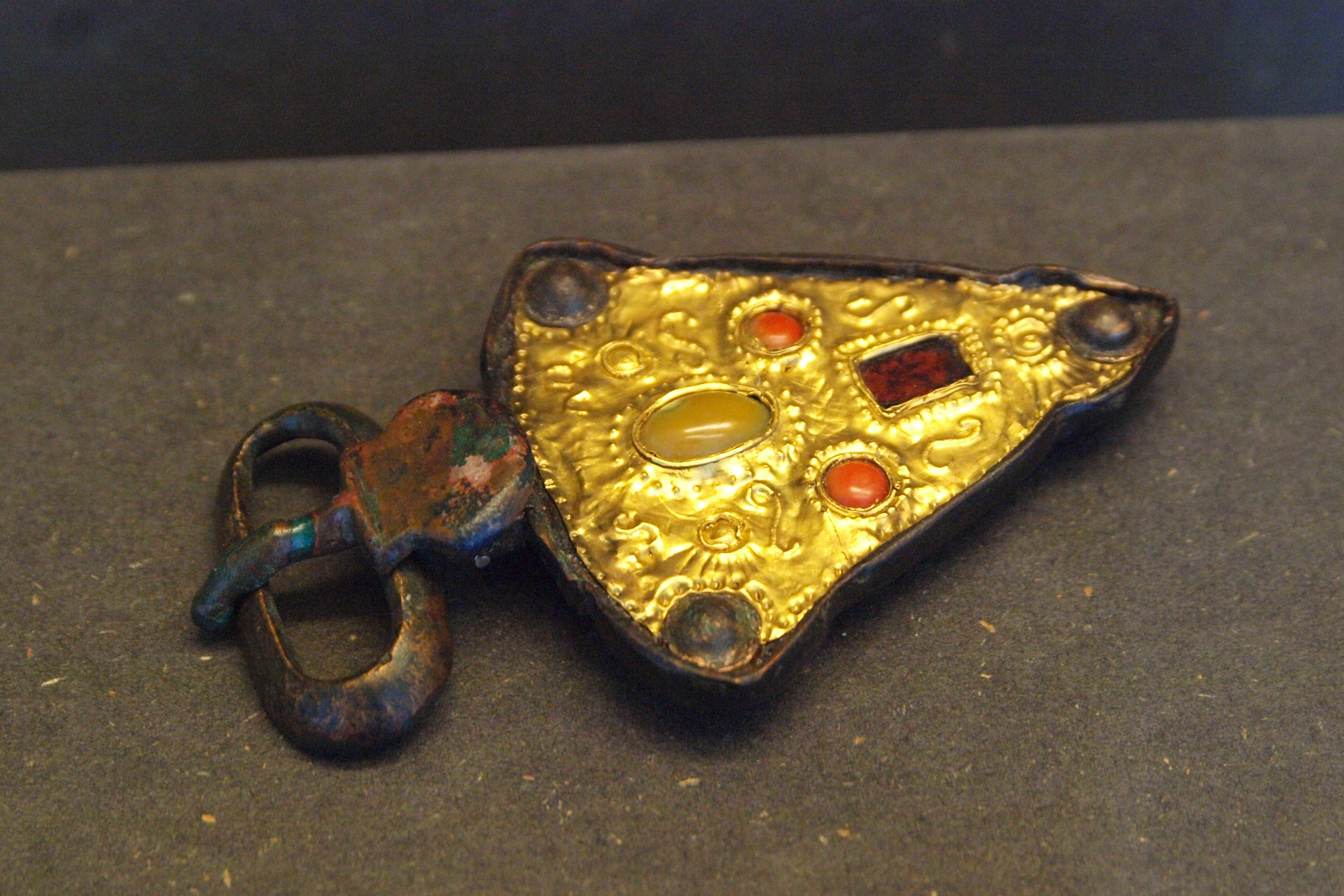 An ealry 20th century forgery of an allegted belt buckle of the Merovingian Period. Photographed at Archäologisches Landesmuseum Schleswig-Holstein Gottorf Castle, Schleswig, Germany.